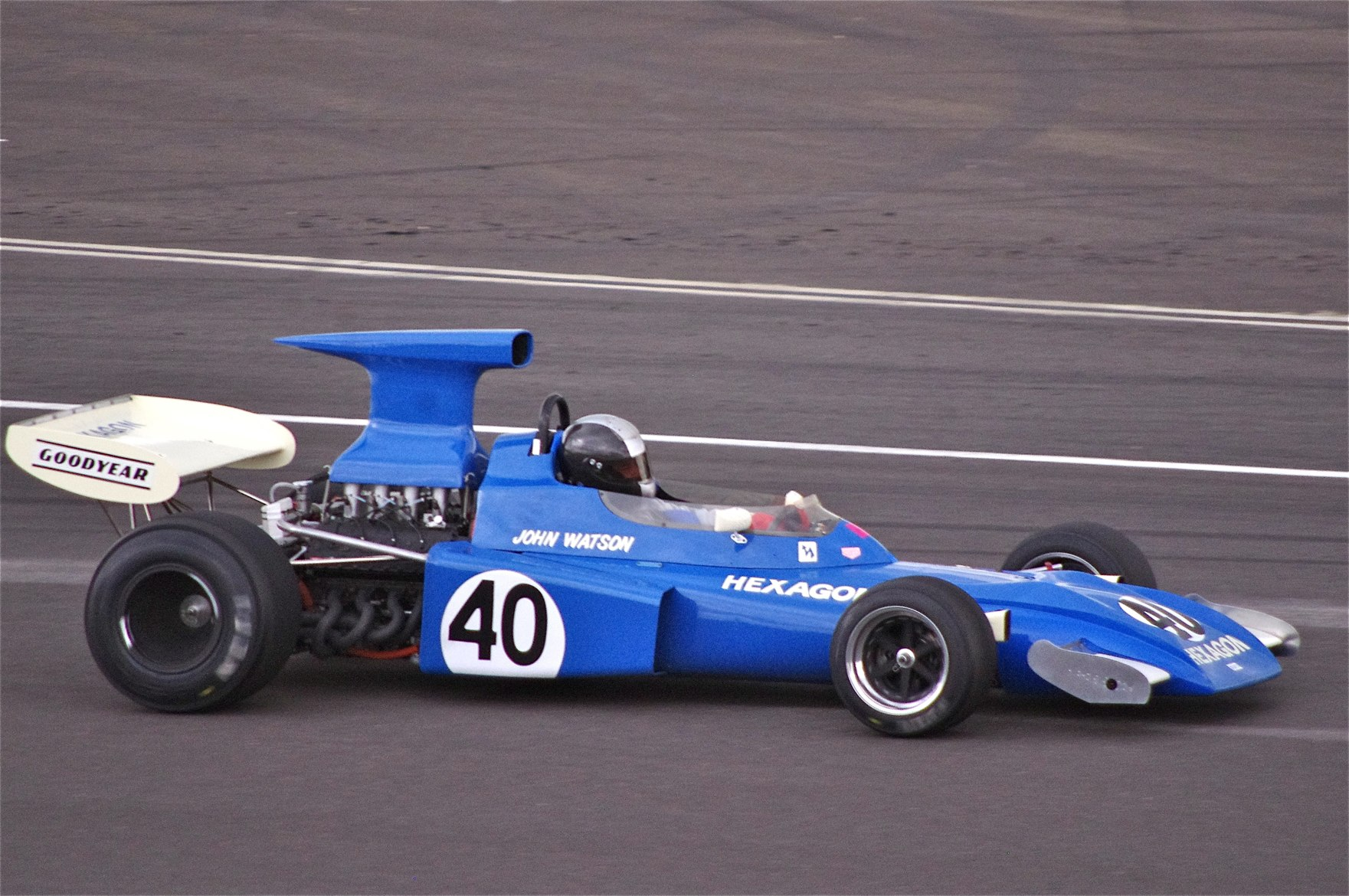 March 721 of John Watson at the Silverstone Classic 2011